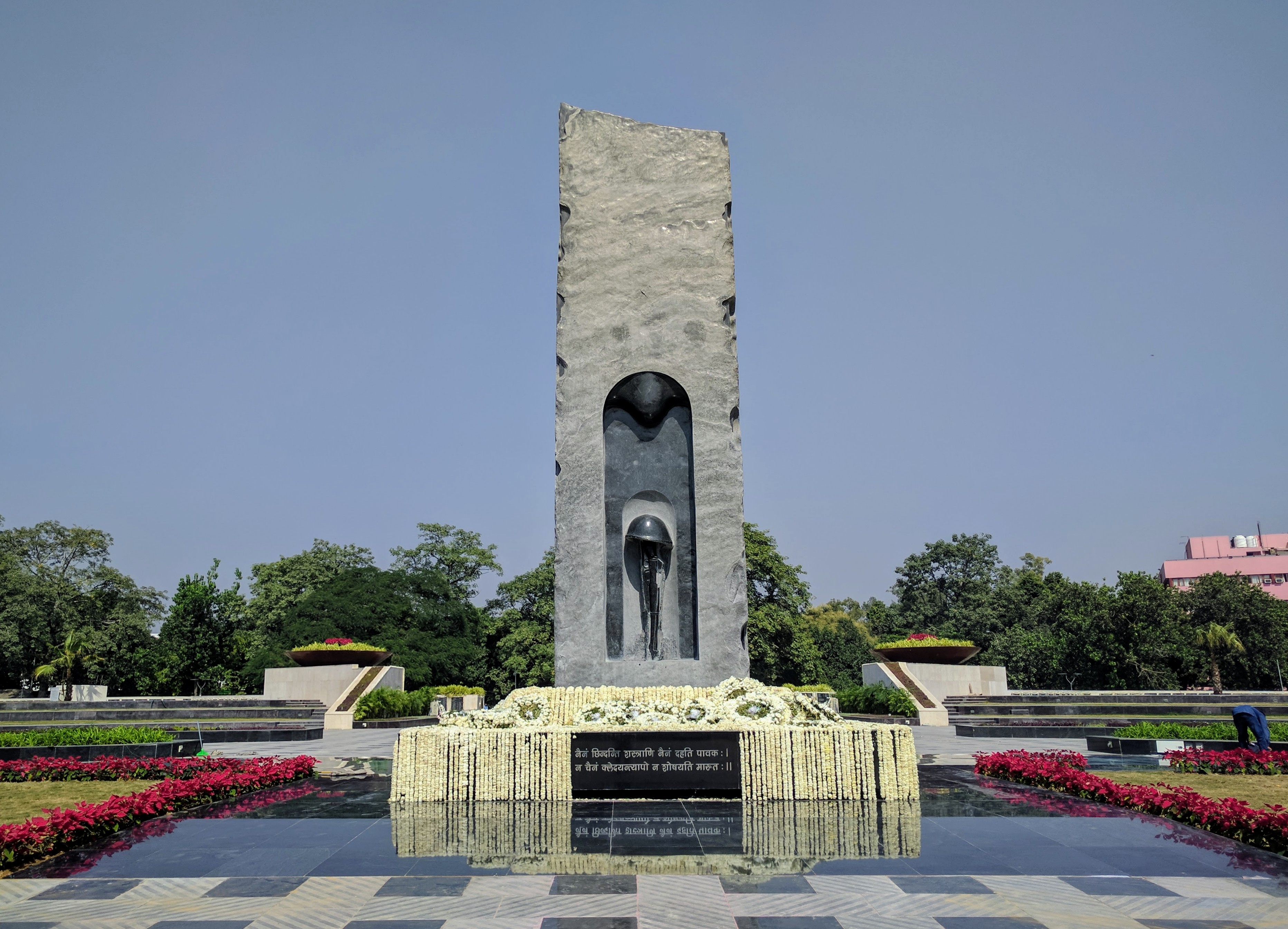 The new National Police Memorial in New Delhi, India, inaugurated on 21 October 2018. The weight and colour symbolise the gravitas and solemnity of the supreme sacrifice.